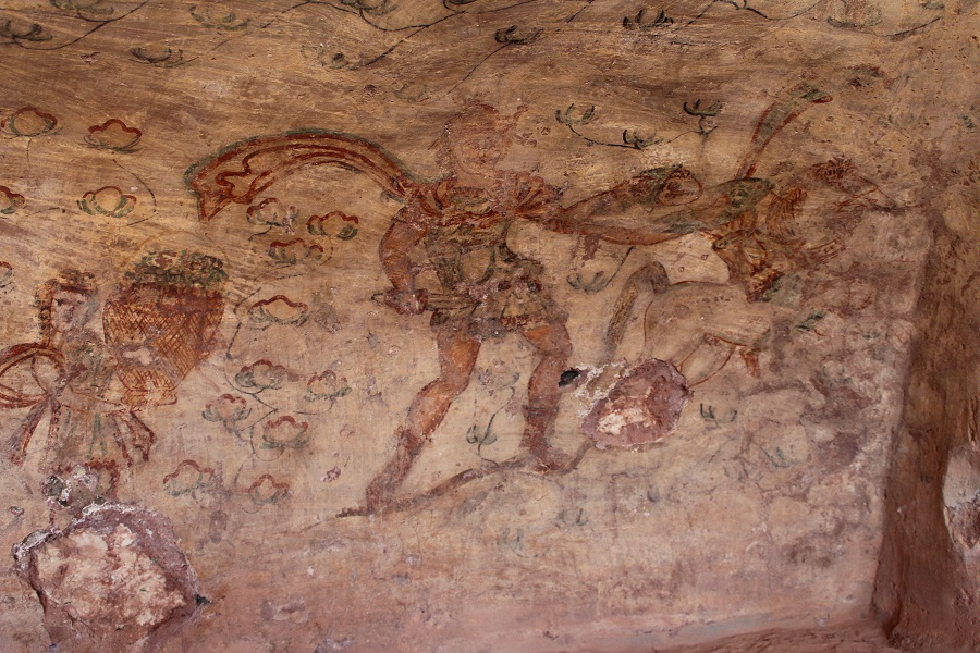 Funeral drawings on the walls of a roman cemetery "Zawiat Oskfa" east of Benghazi, Libya